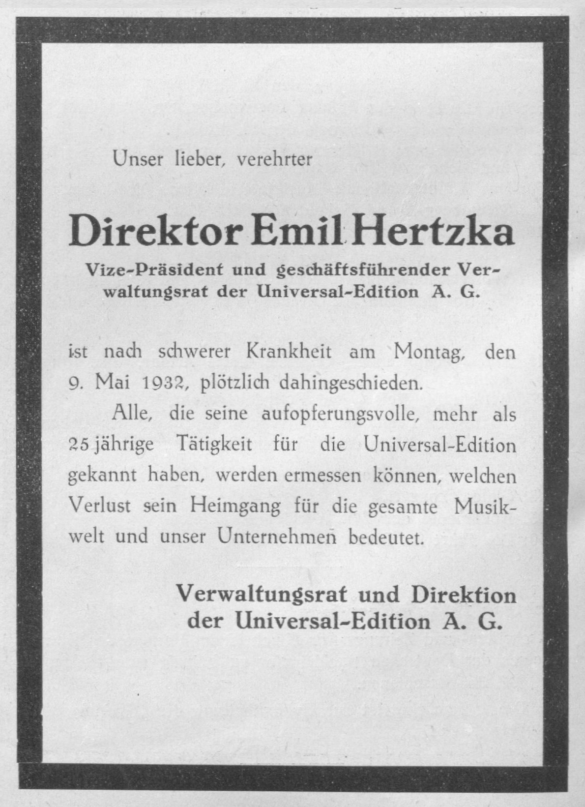 Death notice for Emil Hertzka